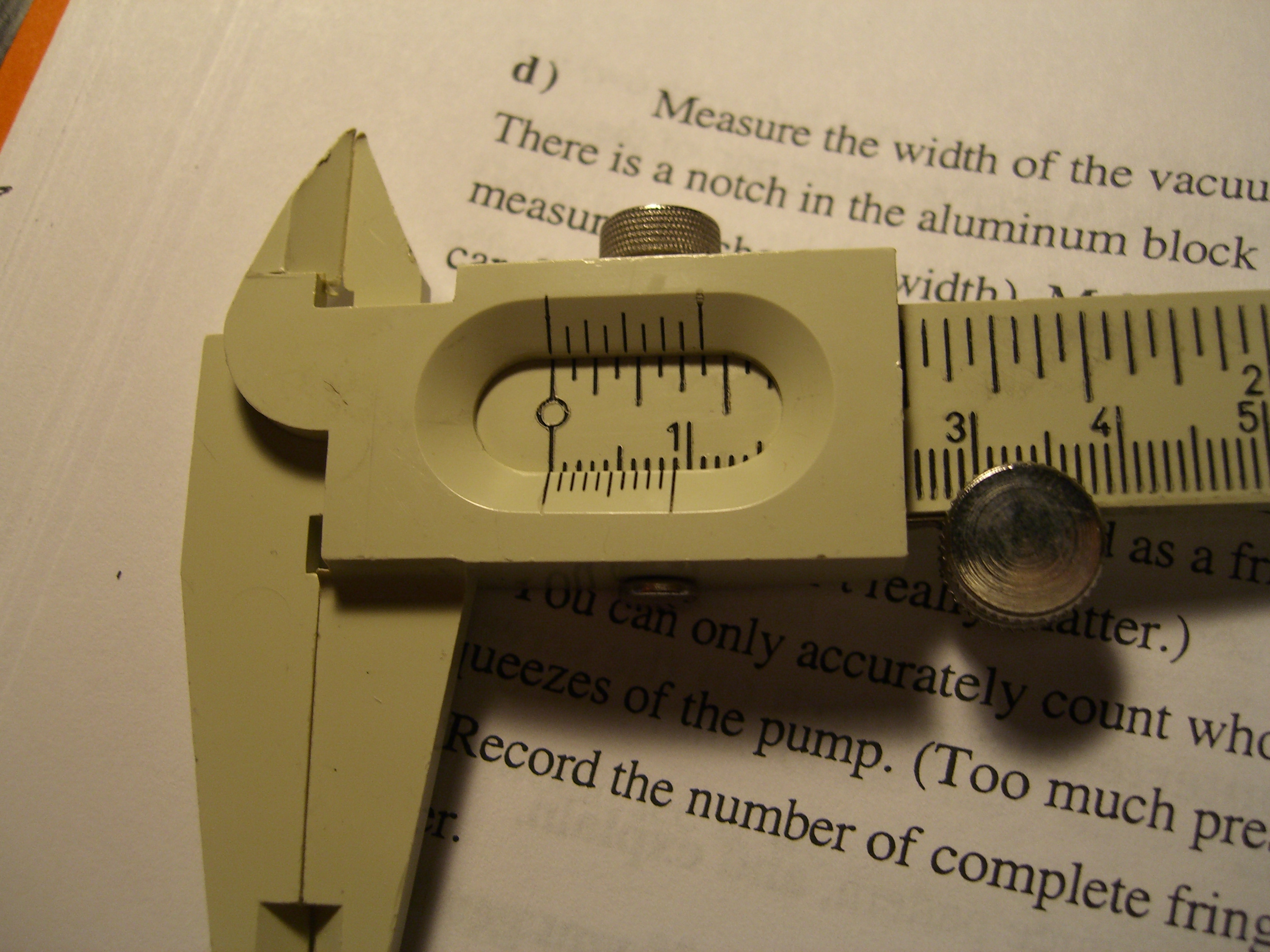 Calipers used in optics lab.